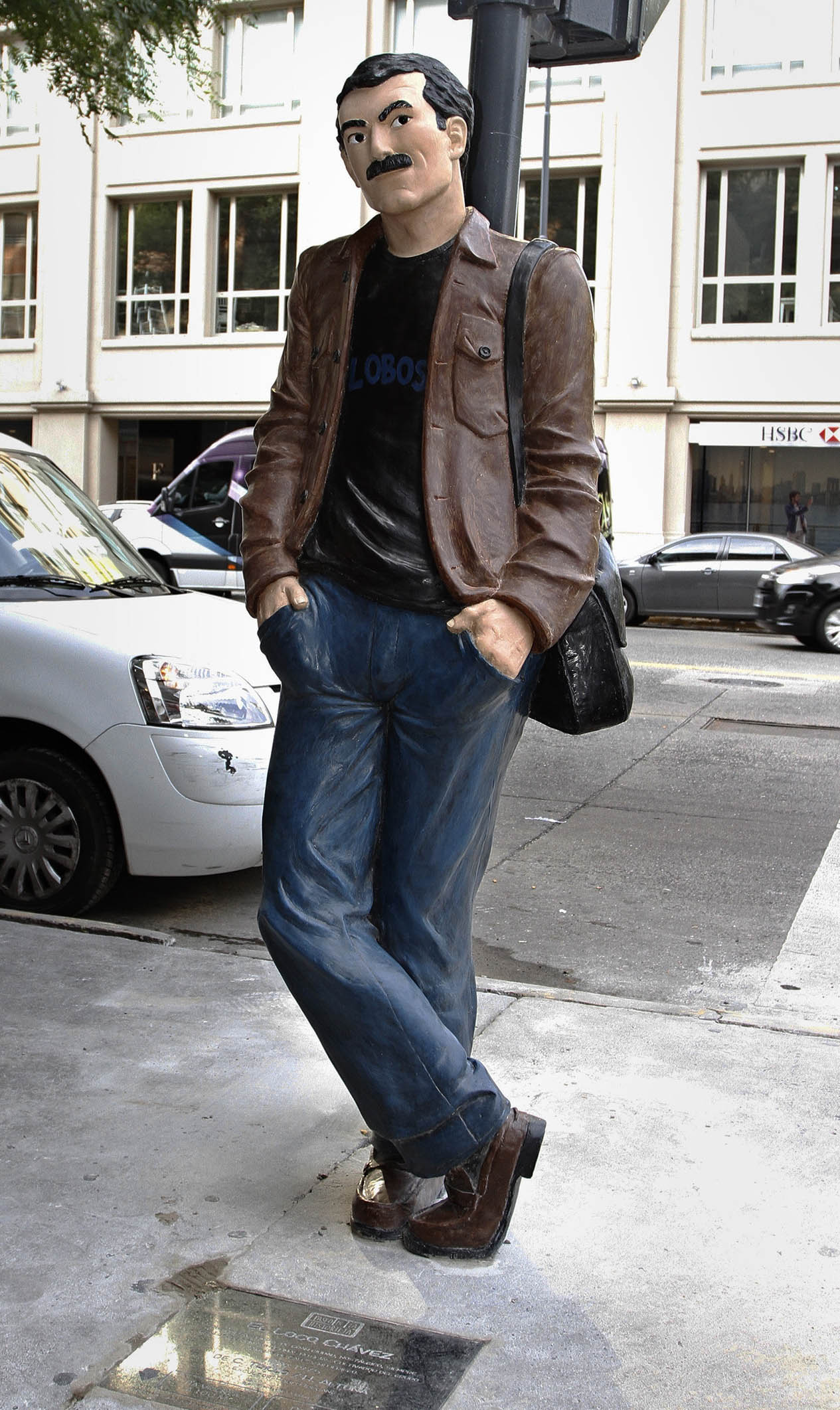 Statue of "El Loco Chávez", a popular character of the 1970/1980s created by Carlos Trillo and Horacio Altuna for the Clarín newspaper.